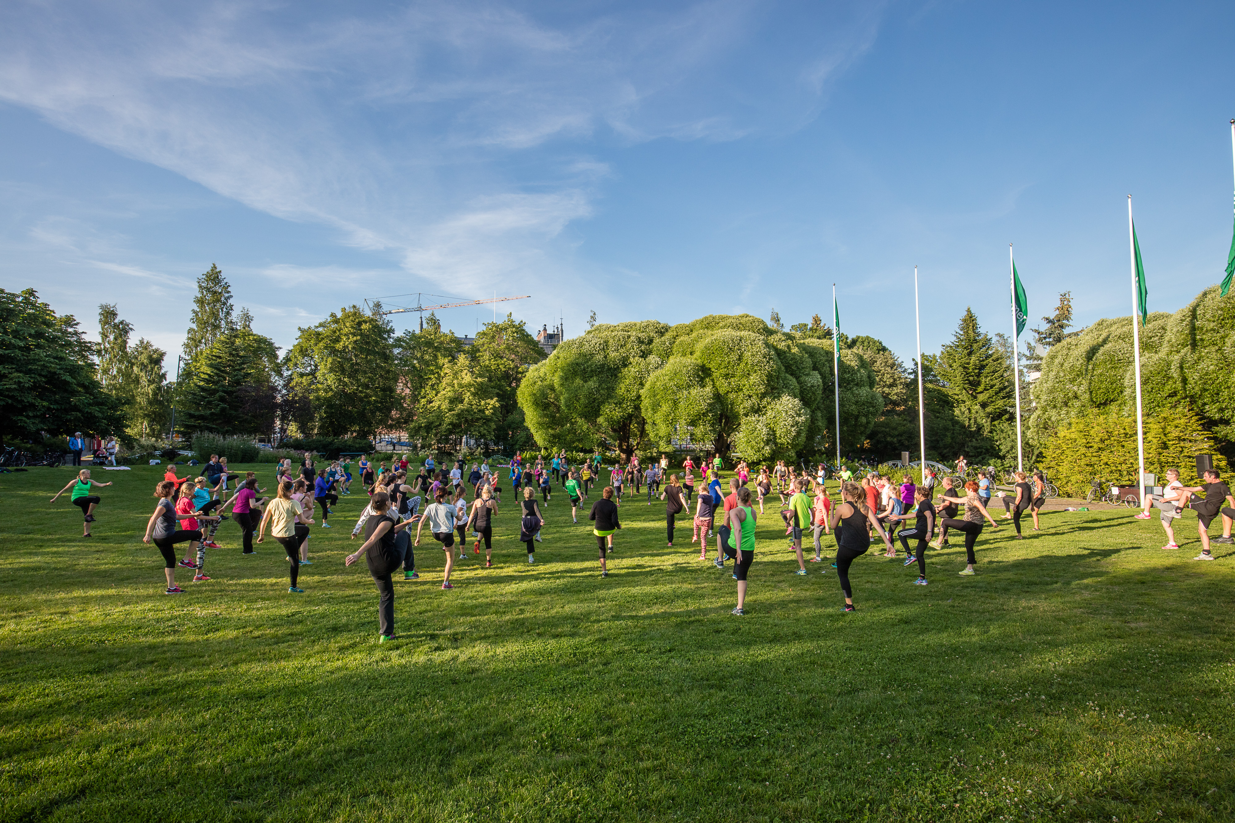 Outdoor training in Vänortsparken in central Umeå, Sweden.